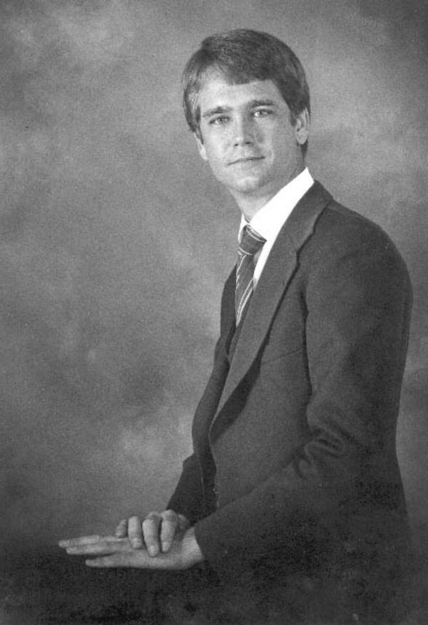 Portrait of Florida legislative representative Tom Gustafson